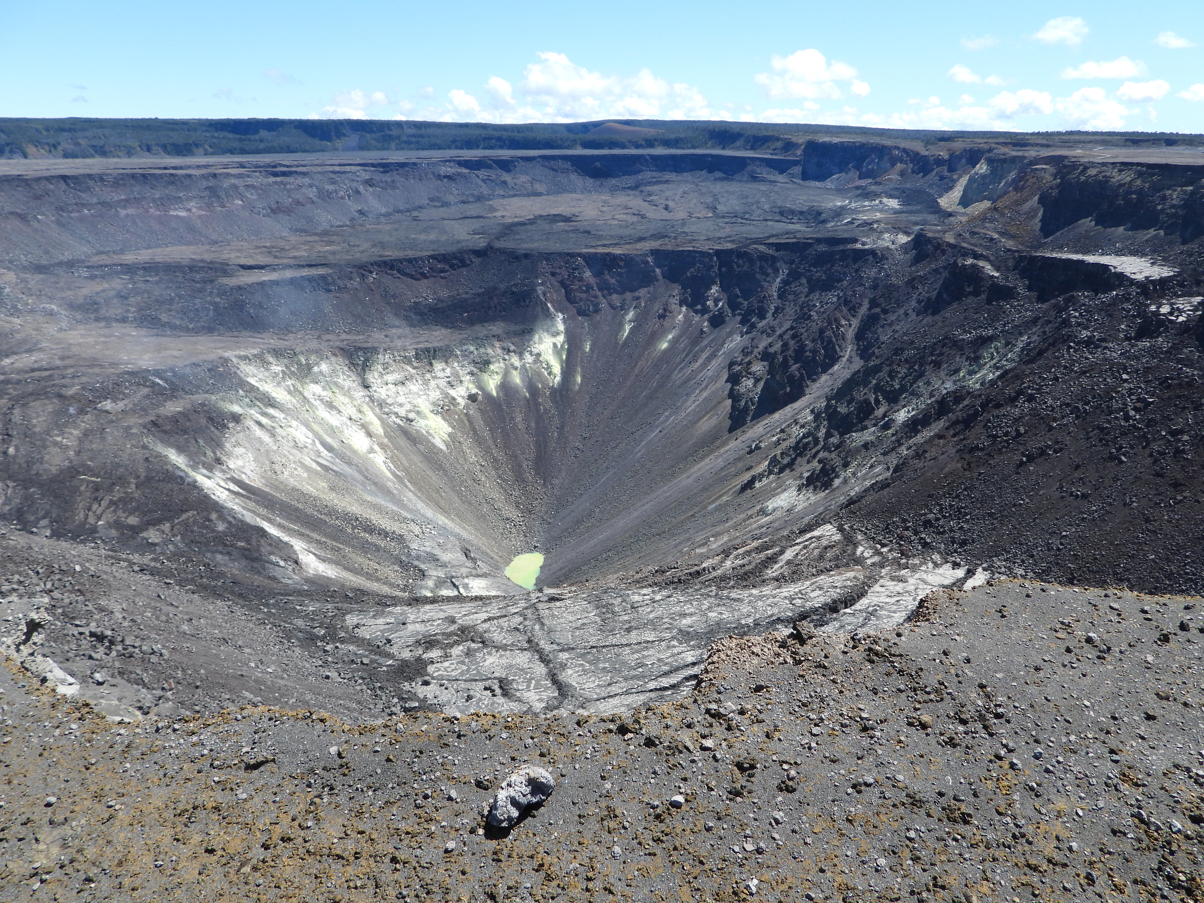 A view of Halema‘uma‘u Crater at the summit of Kīlauea volcano, showing the growing water pond at the bottom of the crater.